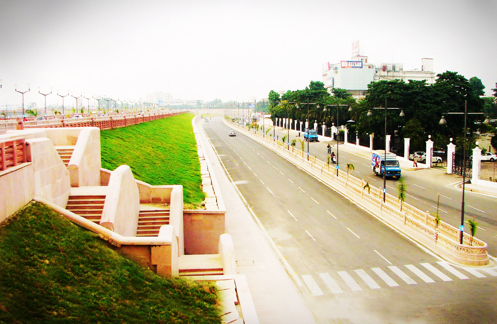 The roads of Lucknow (Gomti Nagar in picture)